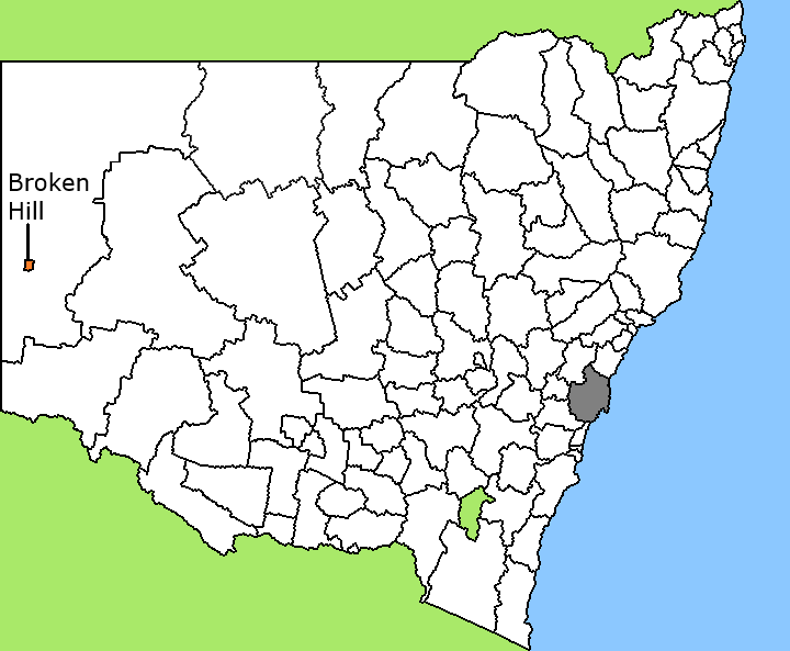 Map of New South Wales/Australia, LGA of the City of Broken Hill highlighted